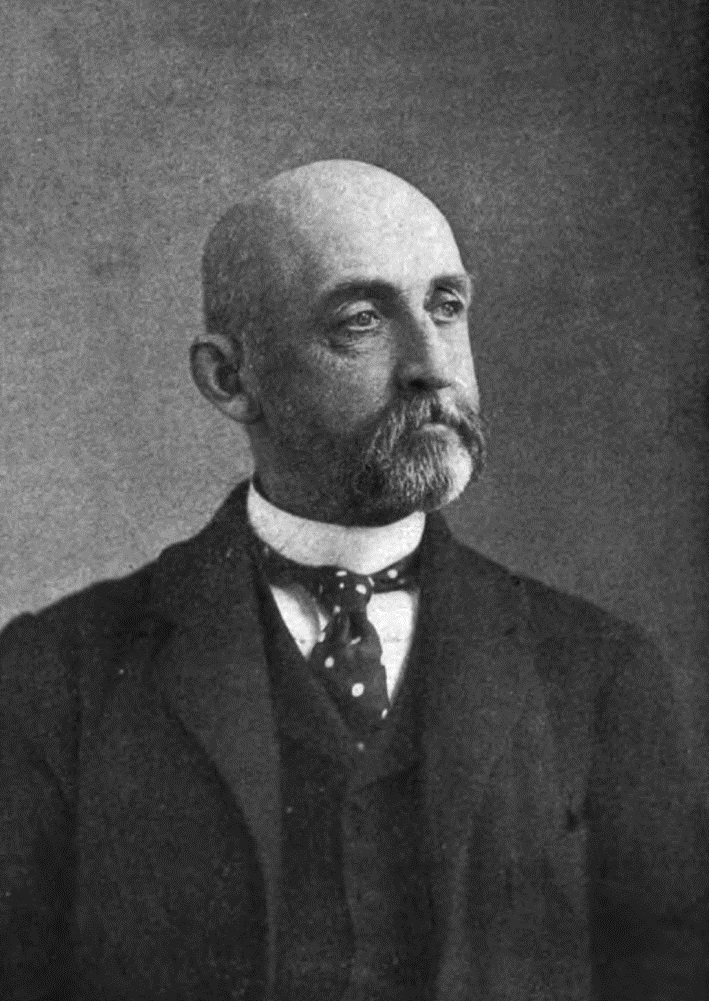 Alfred Thayer Mahan